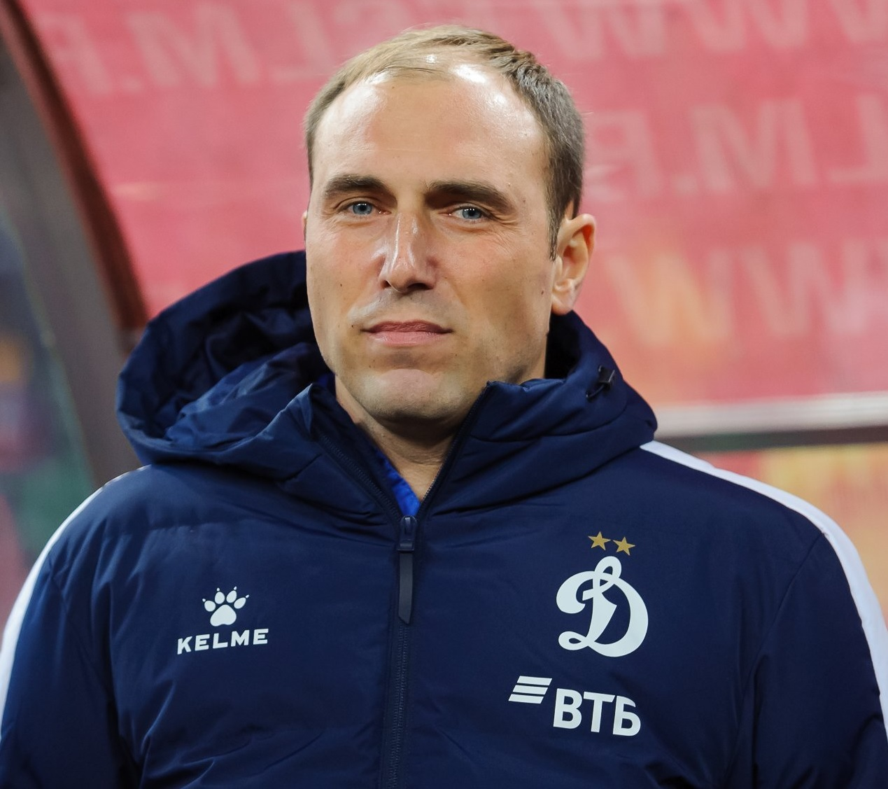 Kirill Novikov coaching FC Dynamo Moscow in a game against FC Lokomotiv Moscow.